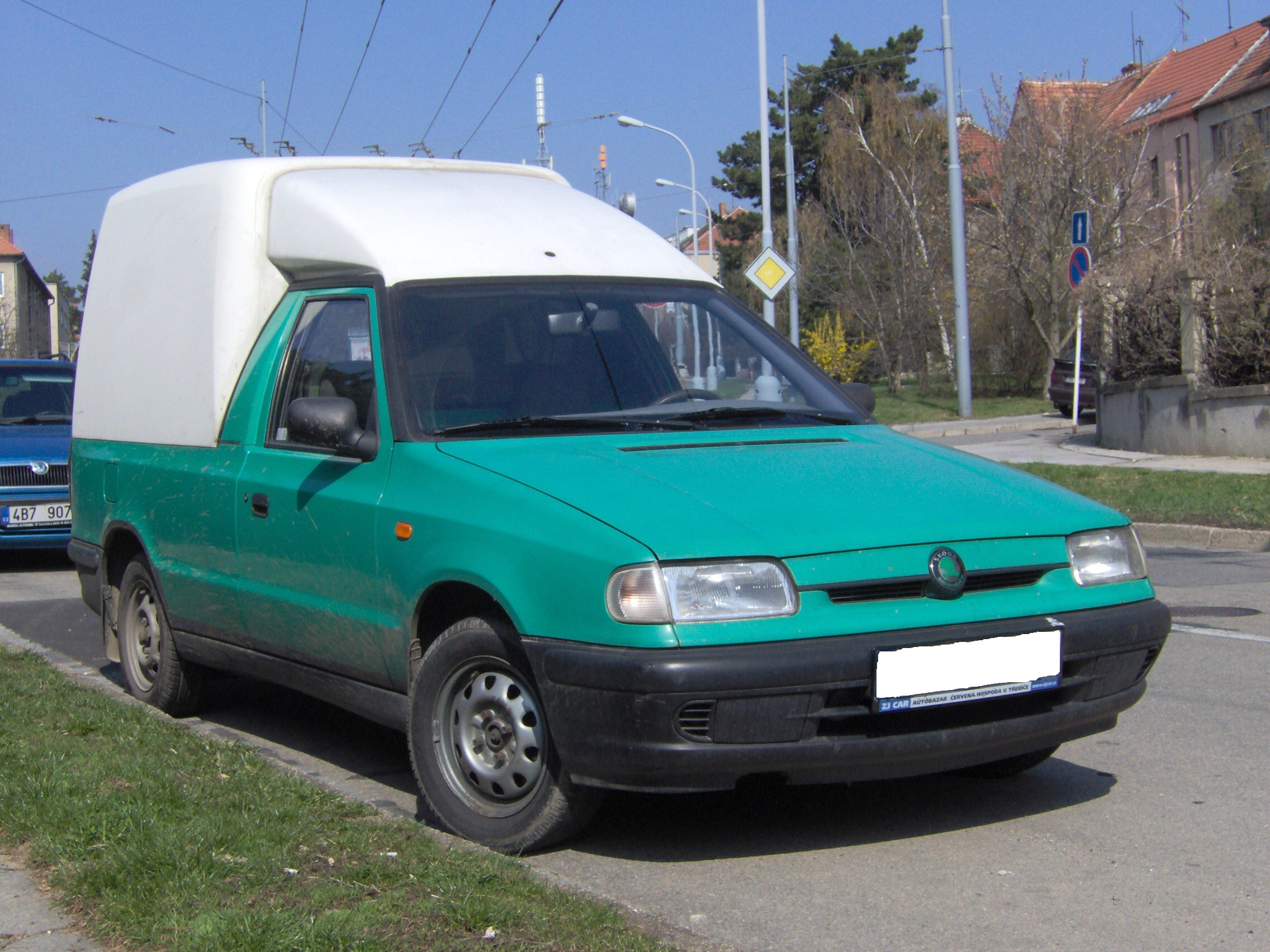 Škoda Pickup, Brno, Czech Republic